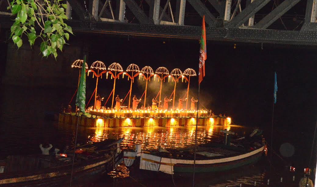 గోదావరి నిత్యహారతి పేజీ లోకి